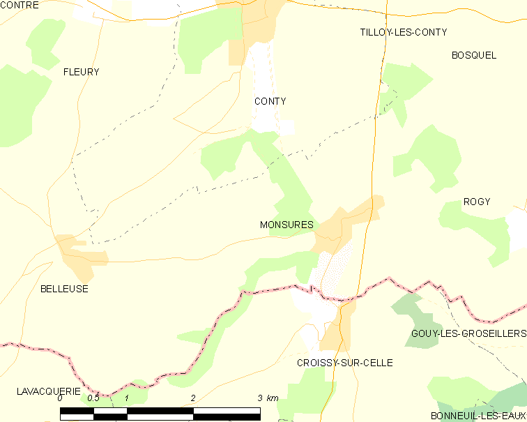 Map of French municipality Monsures